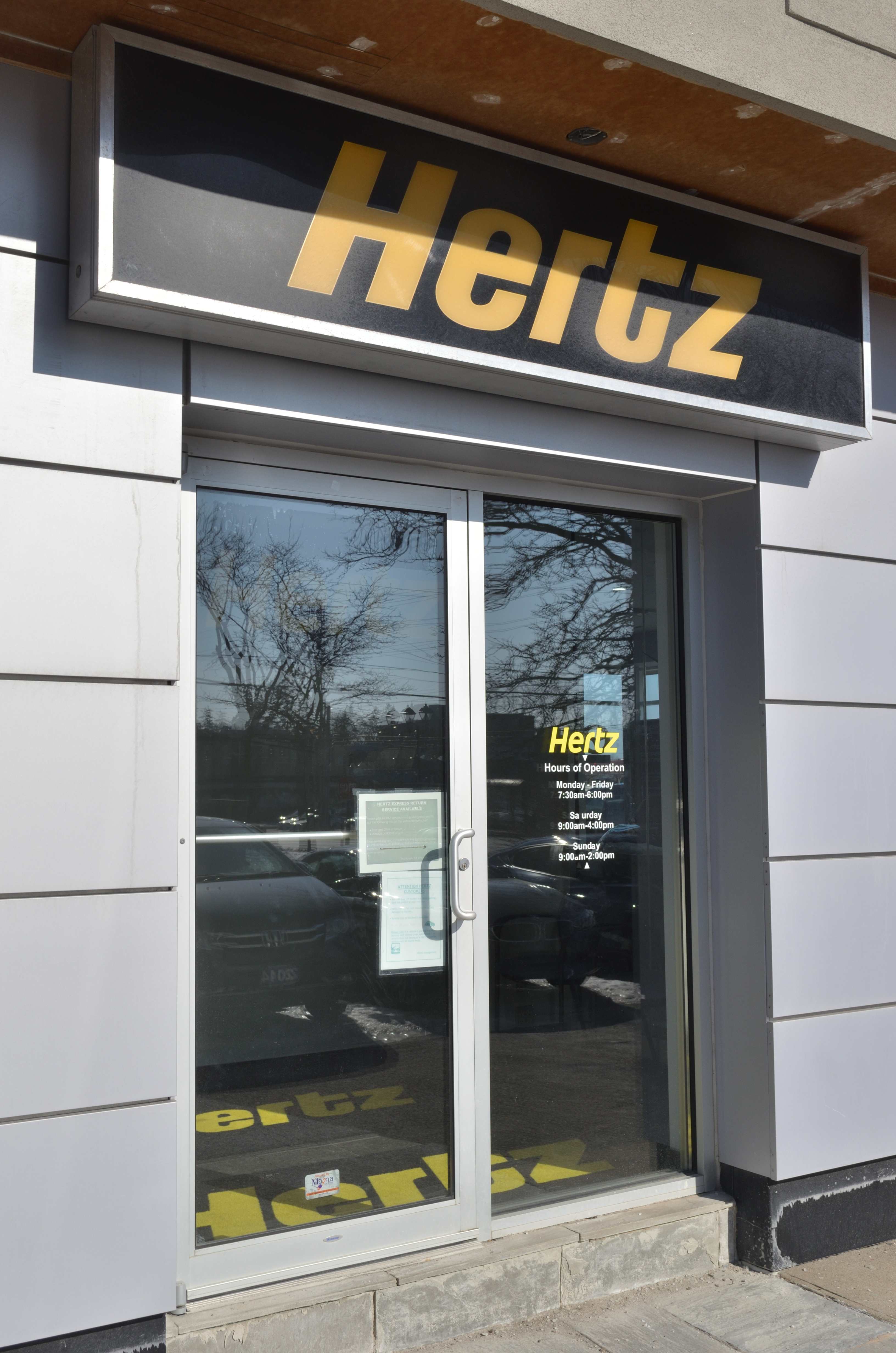 Hertz Corporation - Address: 10414 Yonge St, Richmond Hill, ON L4C 3C3